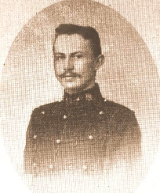 LWJ Mann